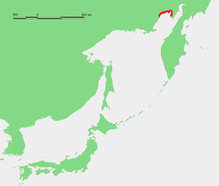 Map of Gizhigin Bay (Gizhiginskaya Guba) — an upper left arm of Shelikhov Gulf, in the northeastern Sea of Okhotsk, Russia. A wide bay of Magadan Oblast, northwest of the Kamchatka Peninsula.